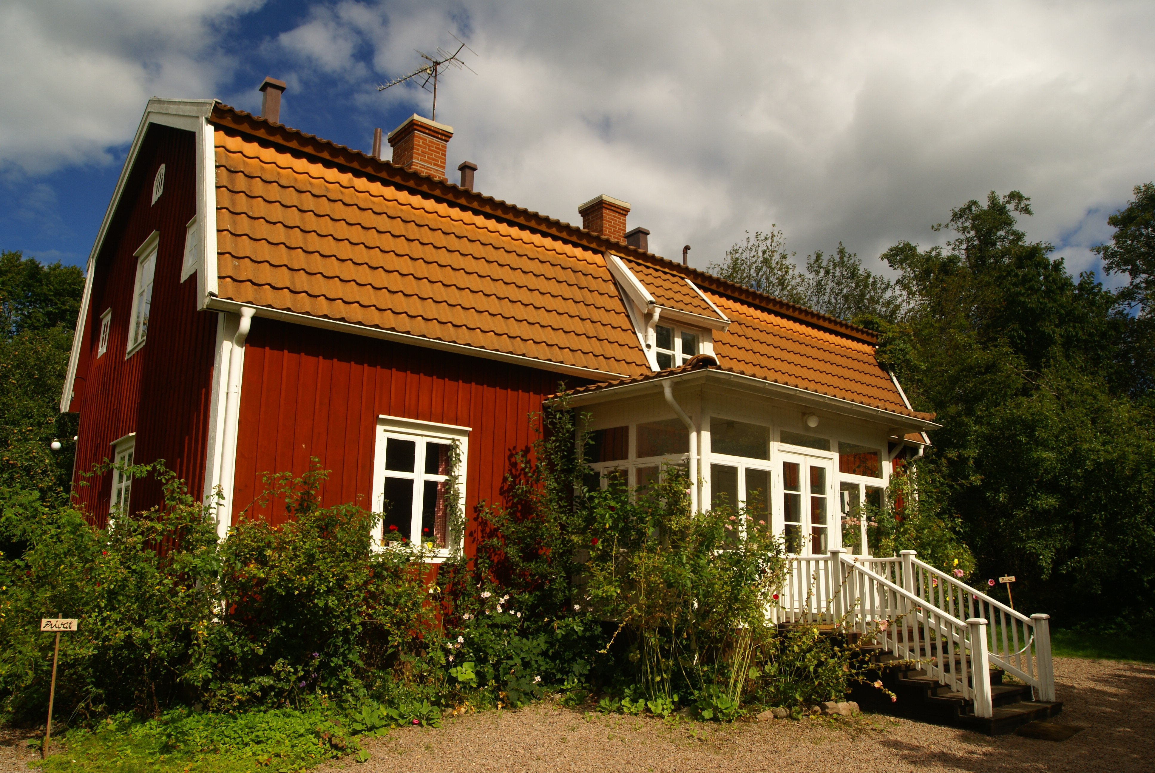 The home of Astrid Lindgren during her childhood in Vimmerby / Sweden, today part of Astrid Lindgren's World